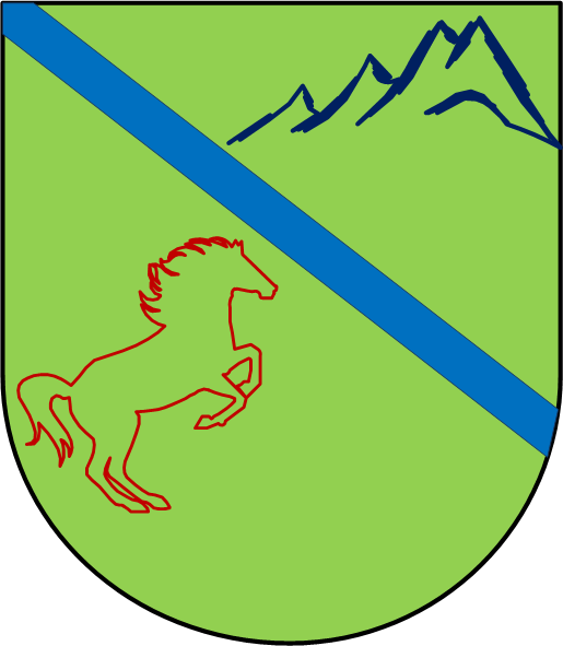 Coat of arms of Fes Boulmane